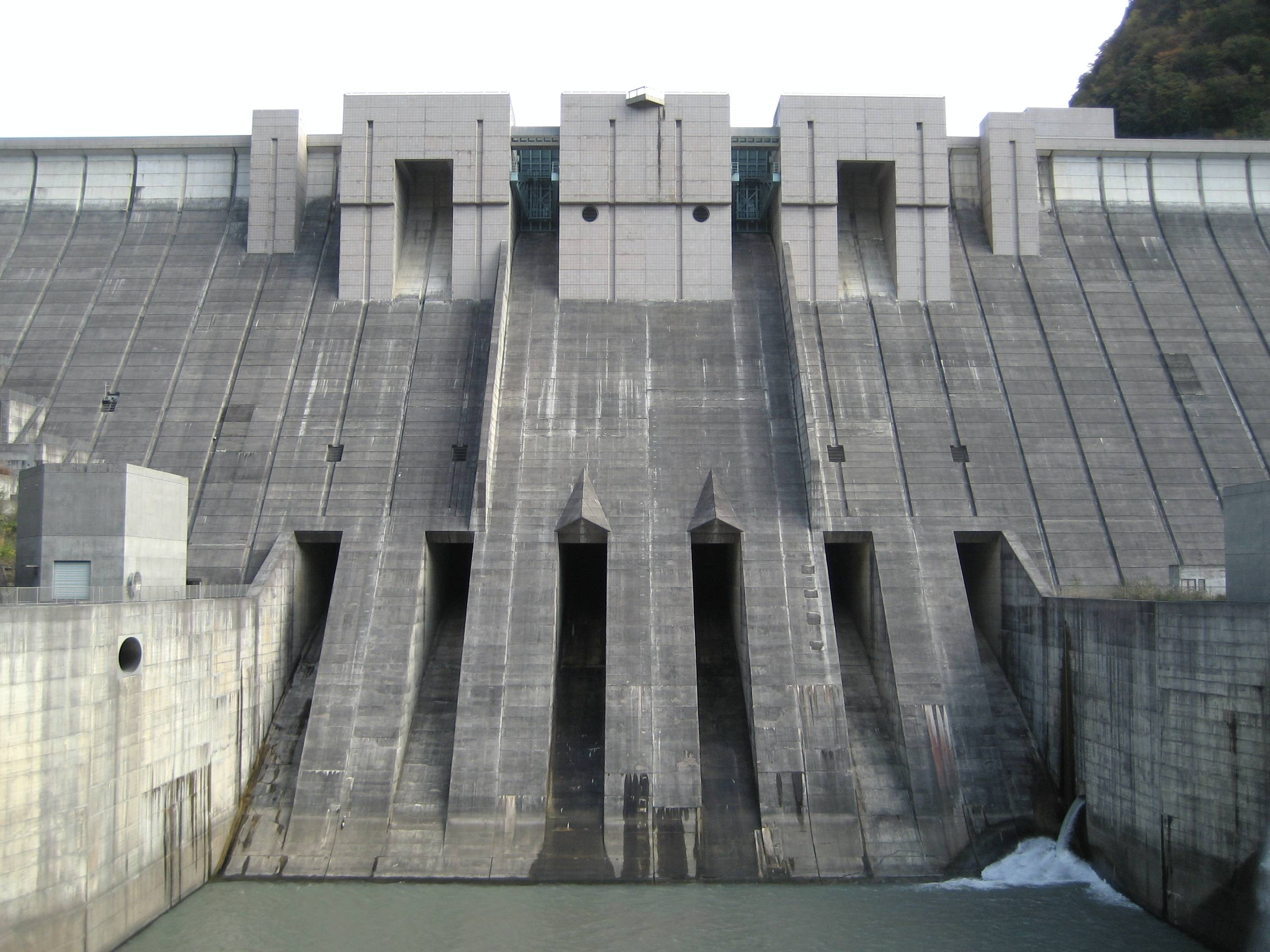 Nagashima Dam.